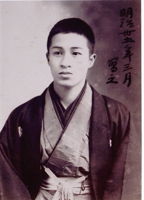 Japanese Ukiyo-e artist and printmaker, Tsuchiya Kōitsu (1870-1949)